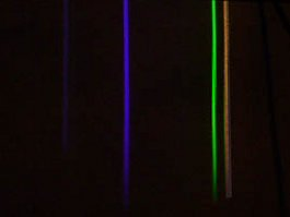 A cropped version of File:HG-Spektrum.jpg. Cropped due to unnecessary black and hands shown in original.